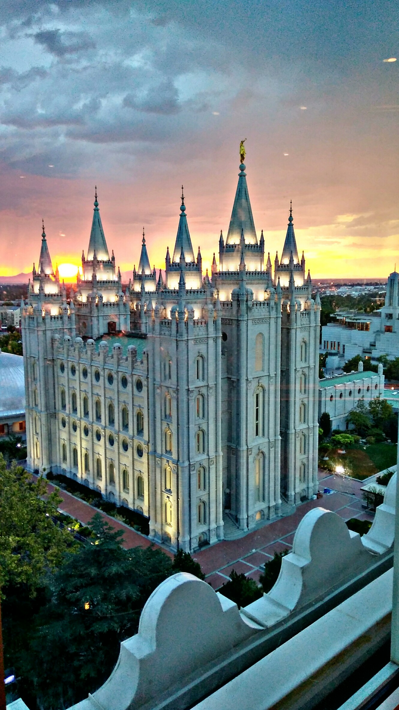 The fusion between artificial and nature.